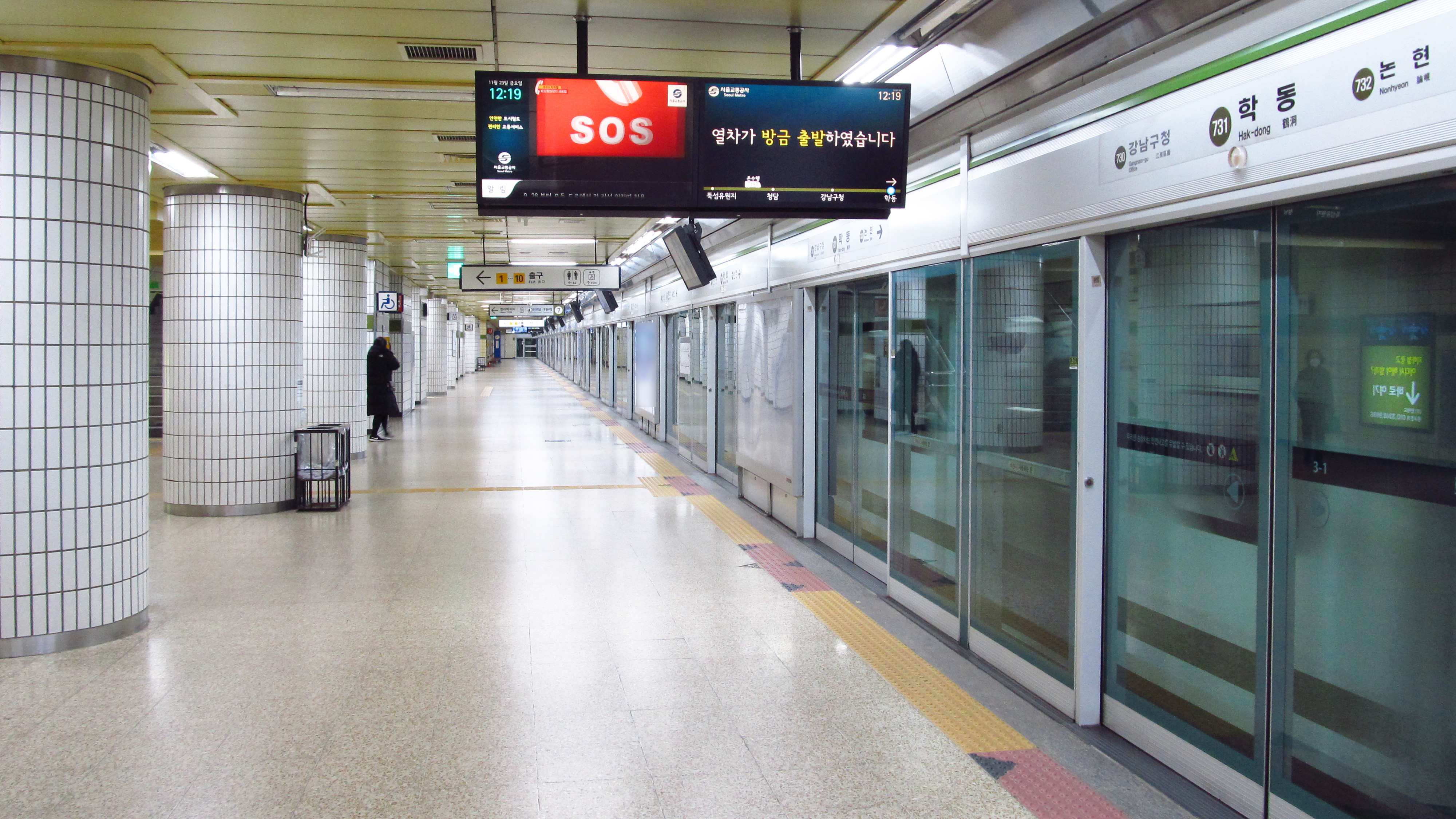 The platform at Hak-dong Station on Seoul Subway Line 7 in Gangnam-gu, Seoul, Republic of Korea(South Korea)